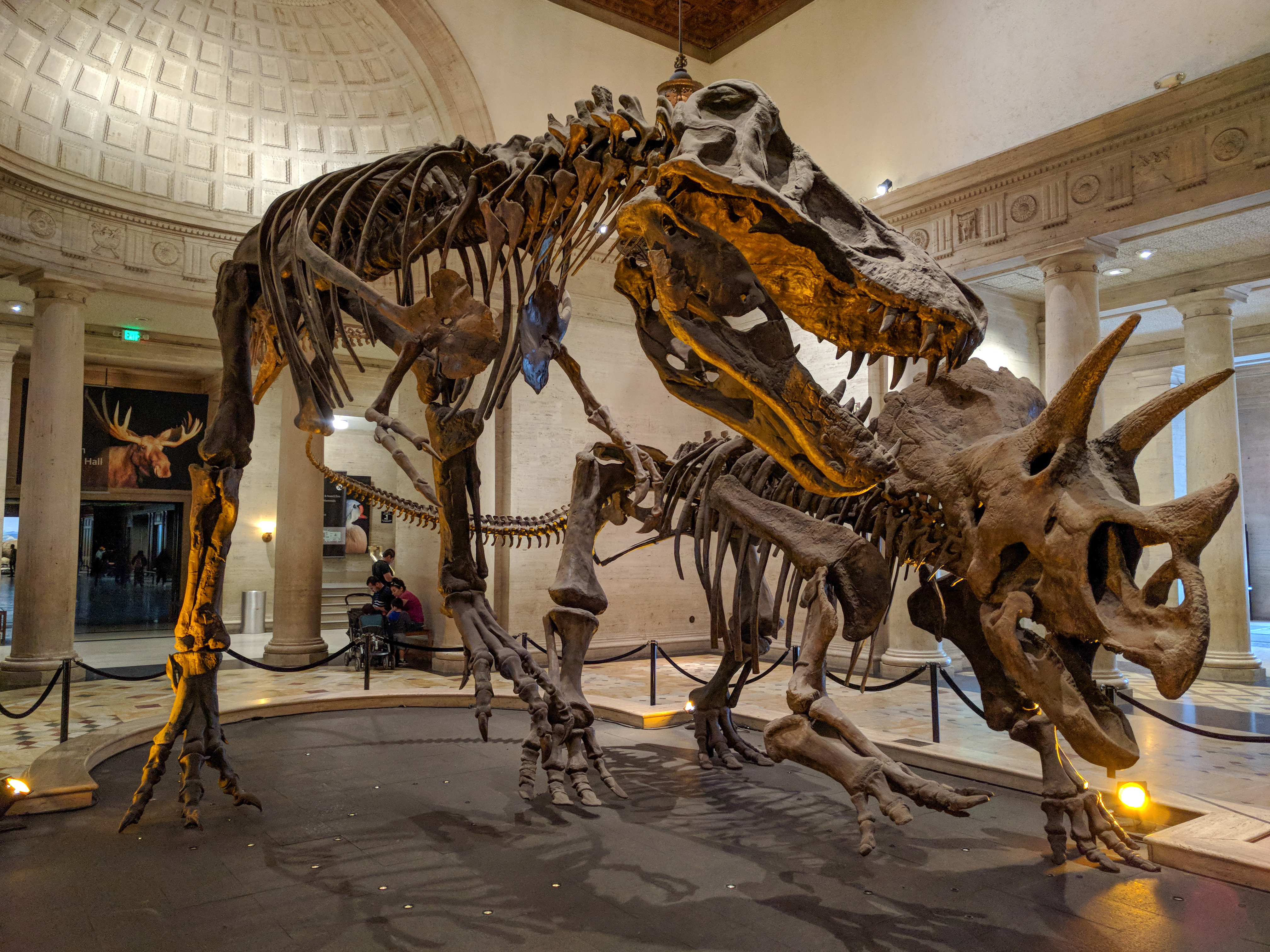 The Natural History Museum of Los Angeles County is the largest natural and historical museum in the western United States. Its collections include nearly 35 million specimens and artifacts and cover 4.5 billion years of history. Tattoo is an exhibition 5,000 years in the making. The art of marking skin with ink spans cultures, continents, and has evolved over time. We find ourselves with a mysterious fascination with both ancient and modern tattoo practices. Are they considered a part of sacred ritual or an act of rebellion? A sign of belonging or expression of individuality? In the special exhibit, you'll explore the history, technique, motivation, and sheer artistic genius that are connected to one another by ink.